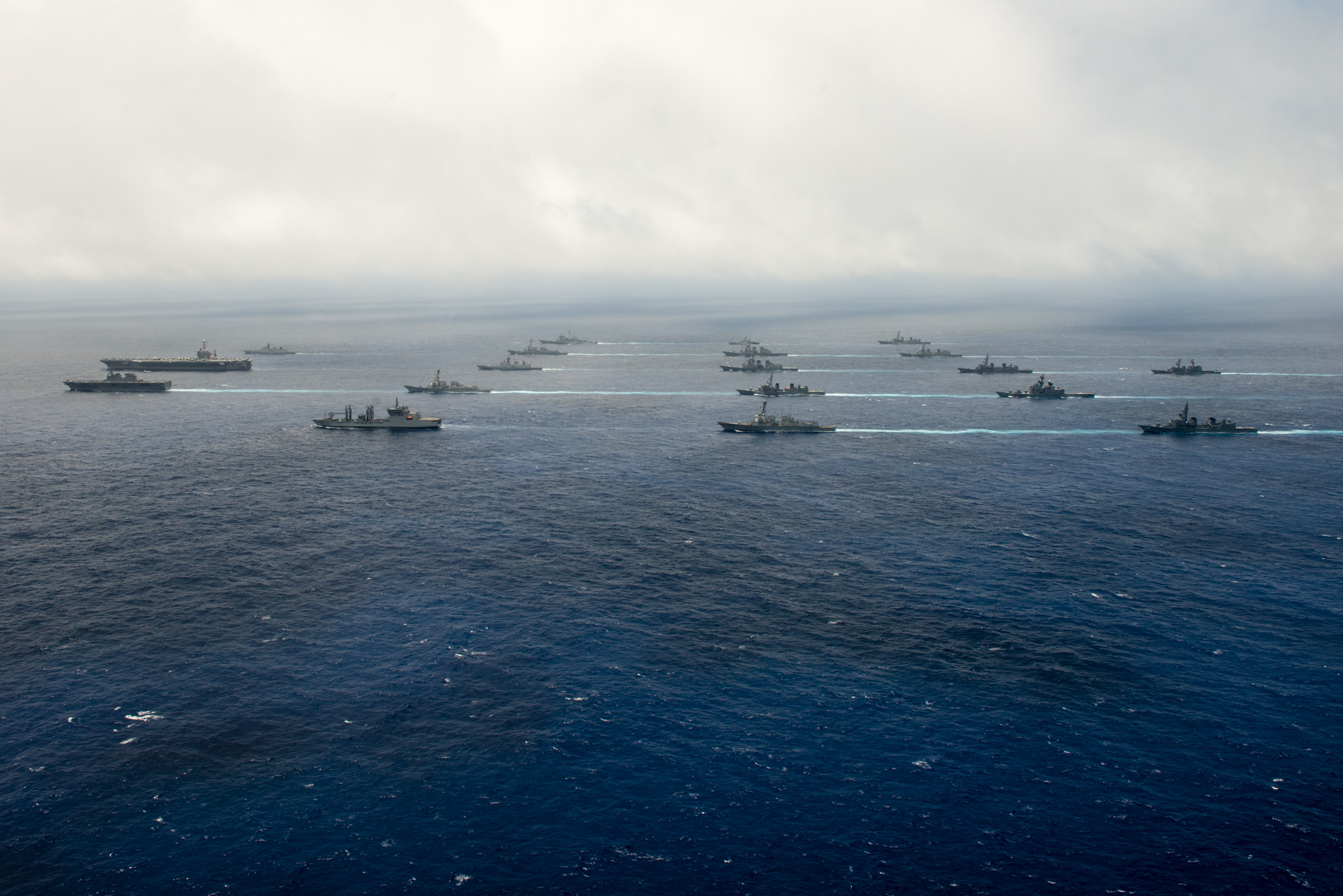 Malabar 2016 participants from the Indian Navy, Japanese Maritime Self-Defense Force (JMSDF), and U.S. Navy sail in formation